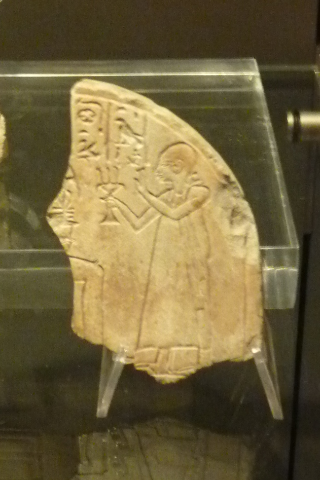 Fragment of an ancient Egyptian stela depicting the mayor of Thebes and vizier, Hori. Limestone from Deir el-Medina, 20th Dynasty, New Kingdom. Found by Schiaparelli in 1905. Turin, Museo Egizio, S.6016.